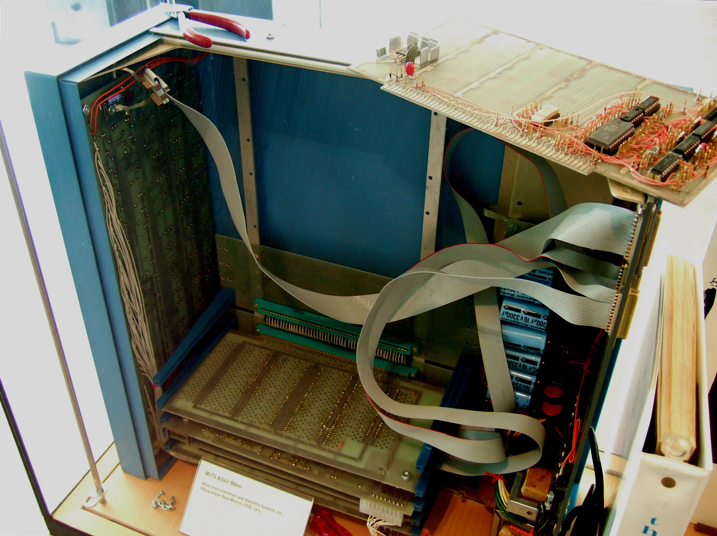 Altair 8800 from the inside